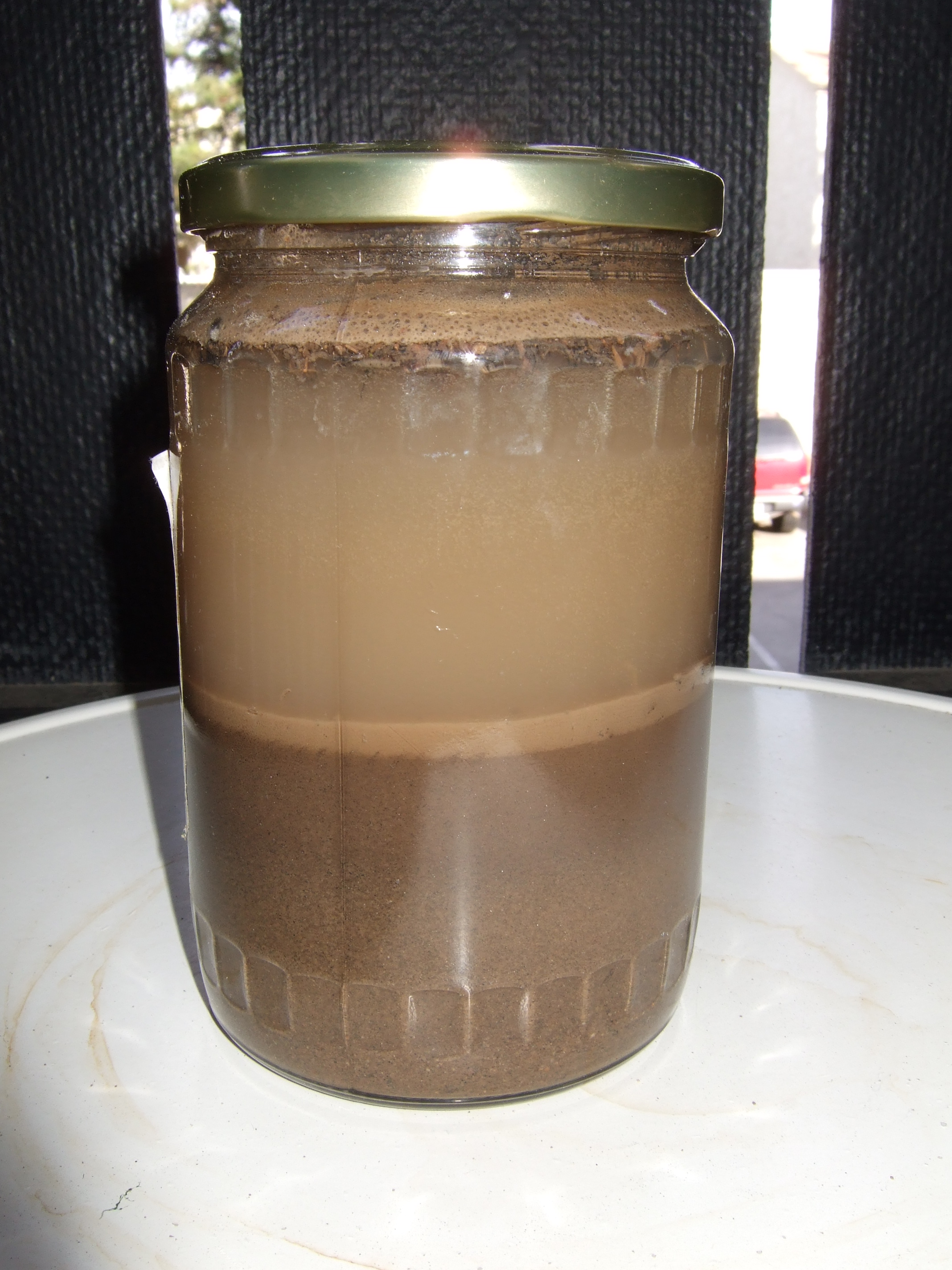 Soil test to determine percentage of clay, silt, and sand in the soil.